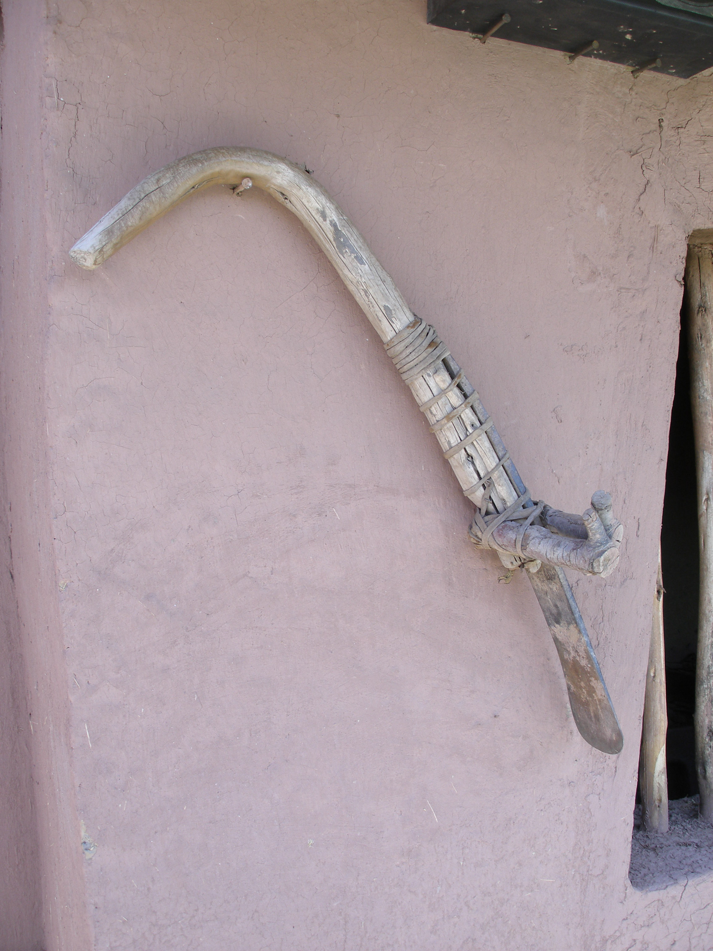 A type of hoe used by small farmers throughout Peru